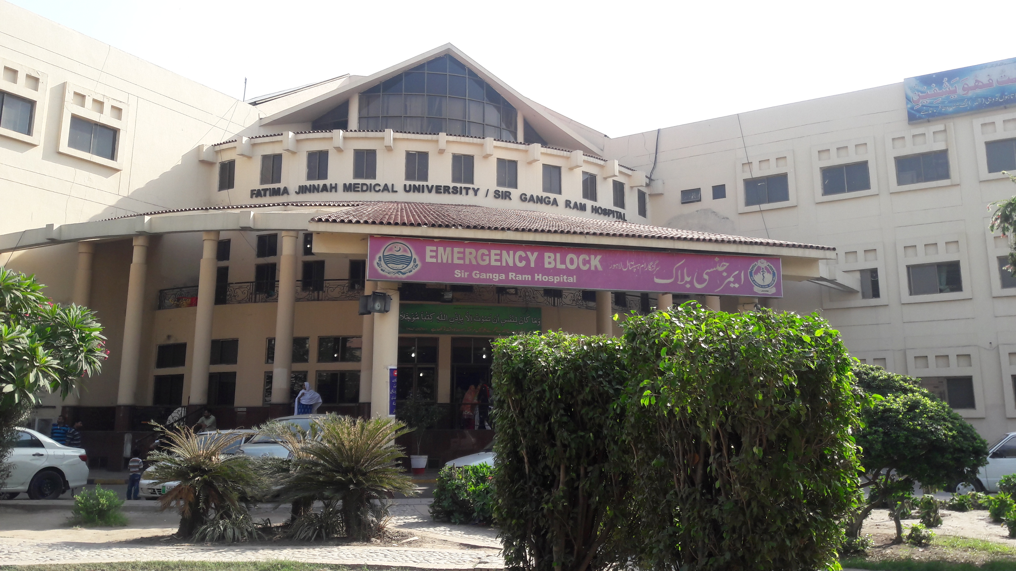 Fatima Jinah Medical College - Sir Ganga Ram Hospital